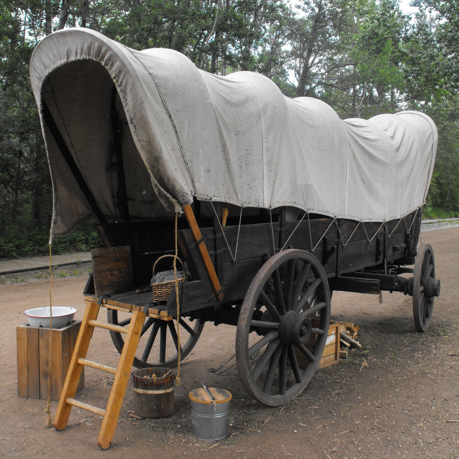 Narrow covered wagon of the type settlers used to goods and people west from Ontario via Winnipeg to Alberta, ca 1885. This photograph was made at Fort Edmonton Park, Edmonton, Alberta.